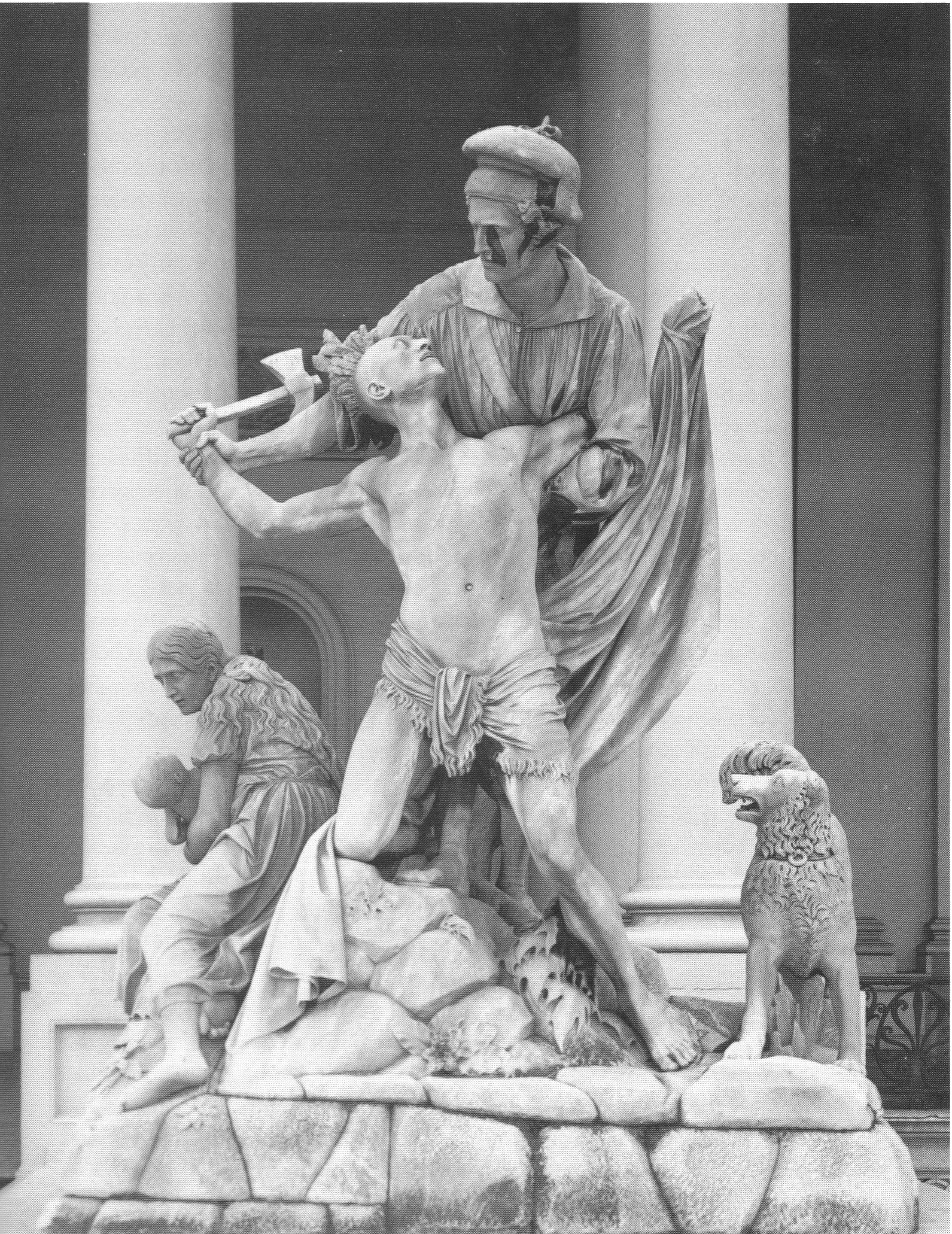 Photo of Horatio Greenough's The Rescue (1837-50) at its long-time site on the east facade of the U.S. Capitol.